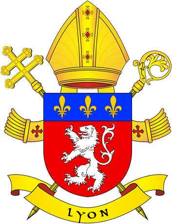 Coat of Arms of archdiocese of Lyon, France.